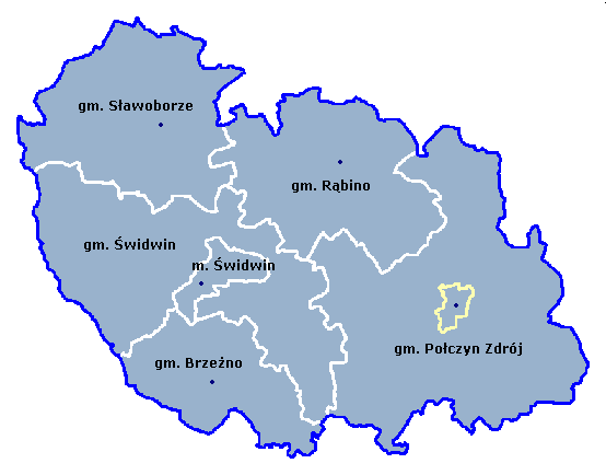 Swidwin County - administrative divisions